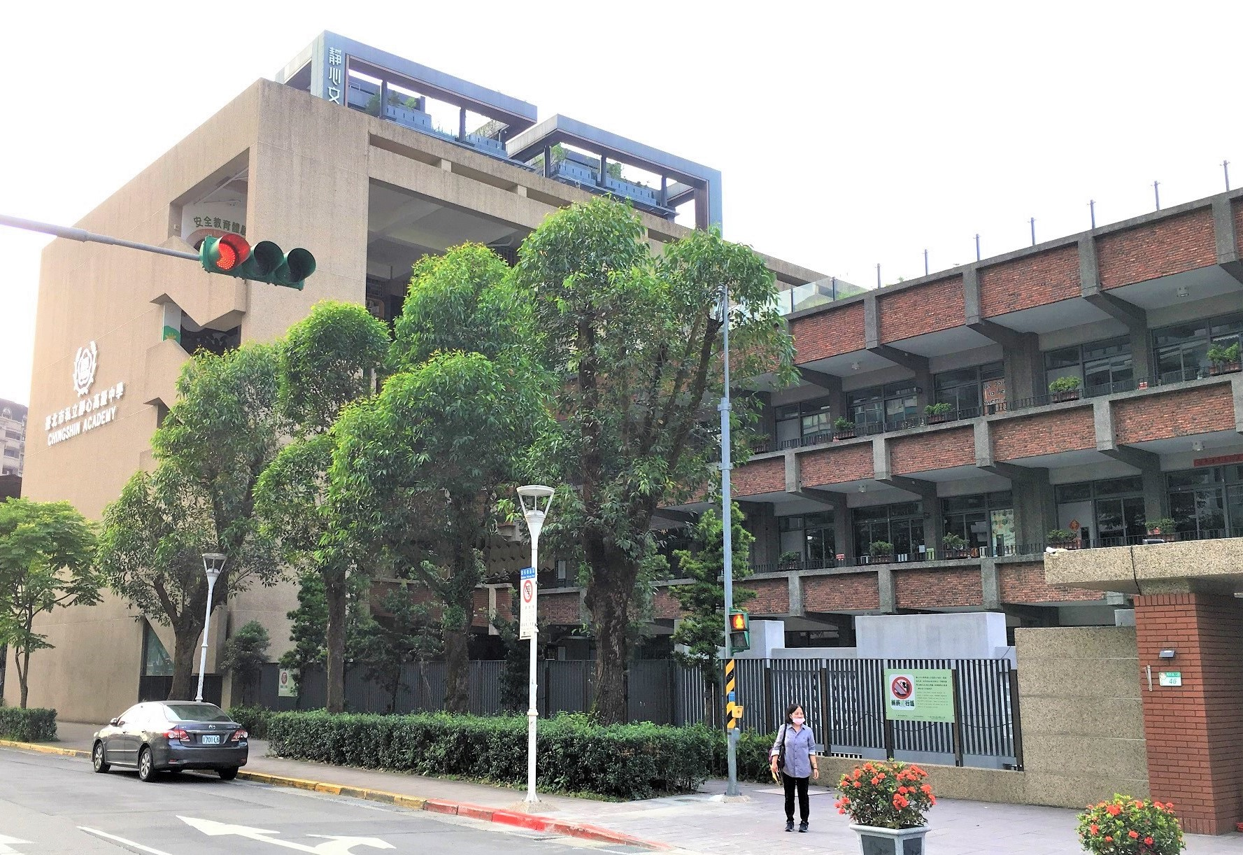 Chinshin High School front view 3